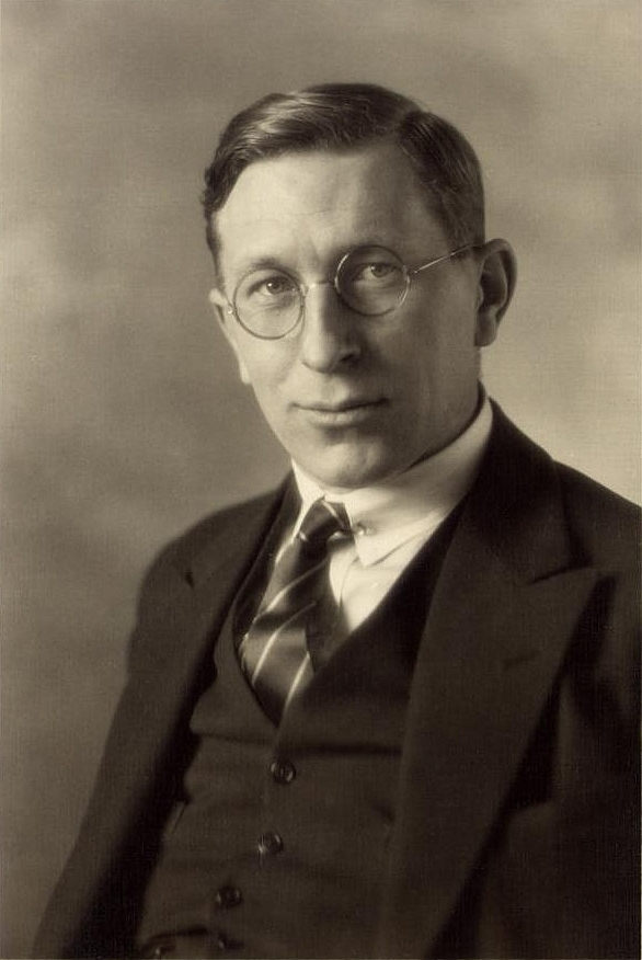 Photograph of F. G. Banting